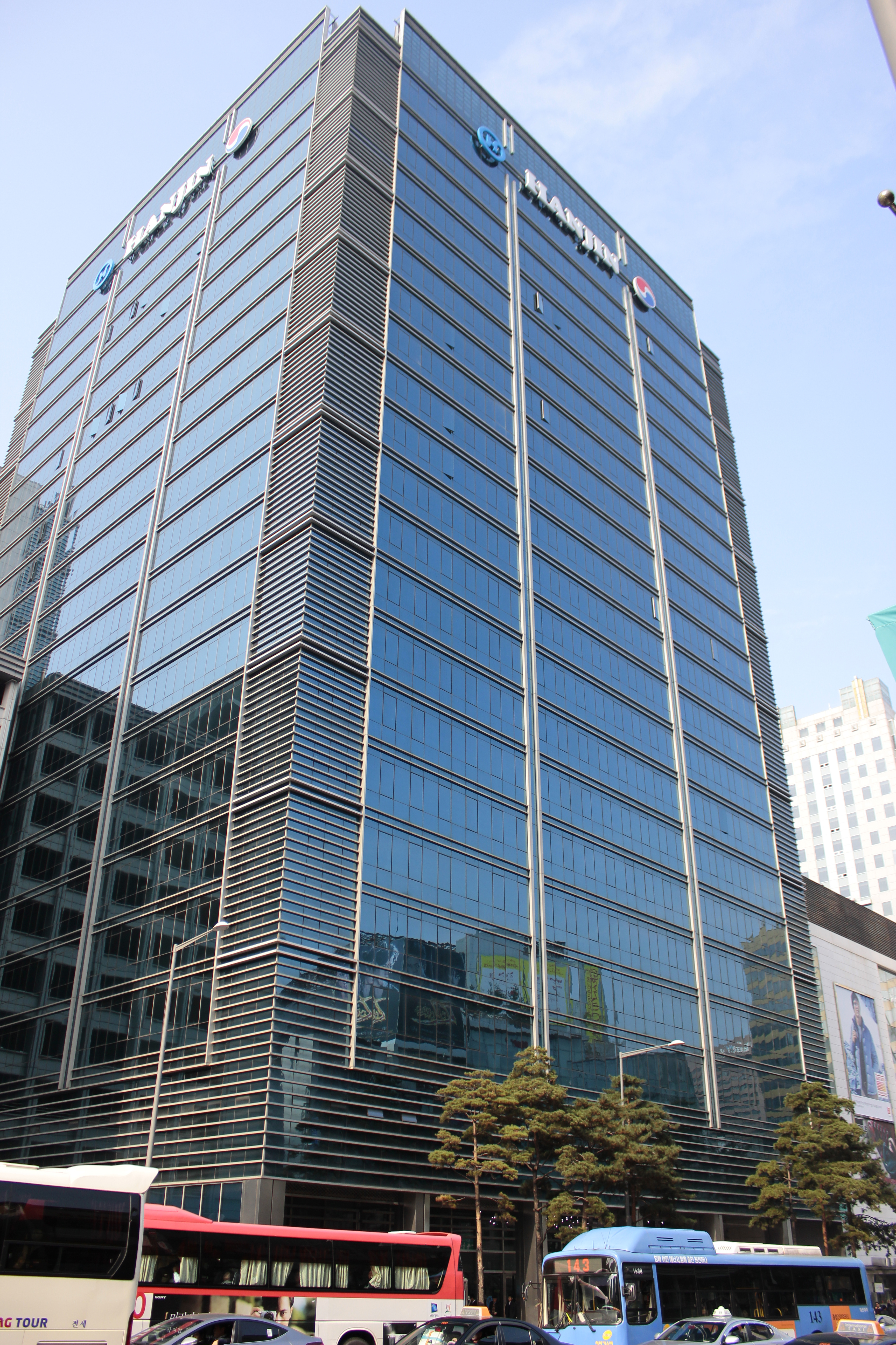 Hanjin Group Headquarters in Jung-gu, Seoul